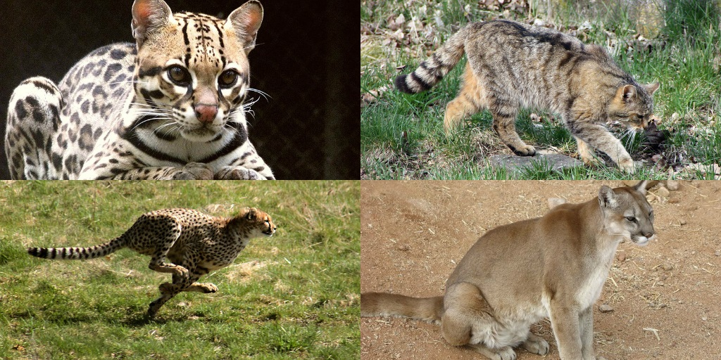 Montage of different members of Felinae.